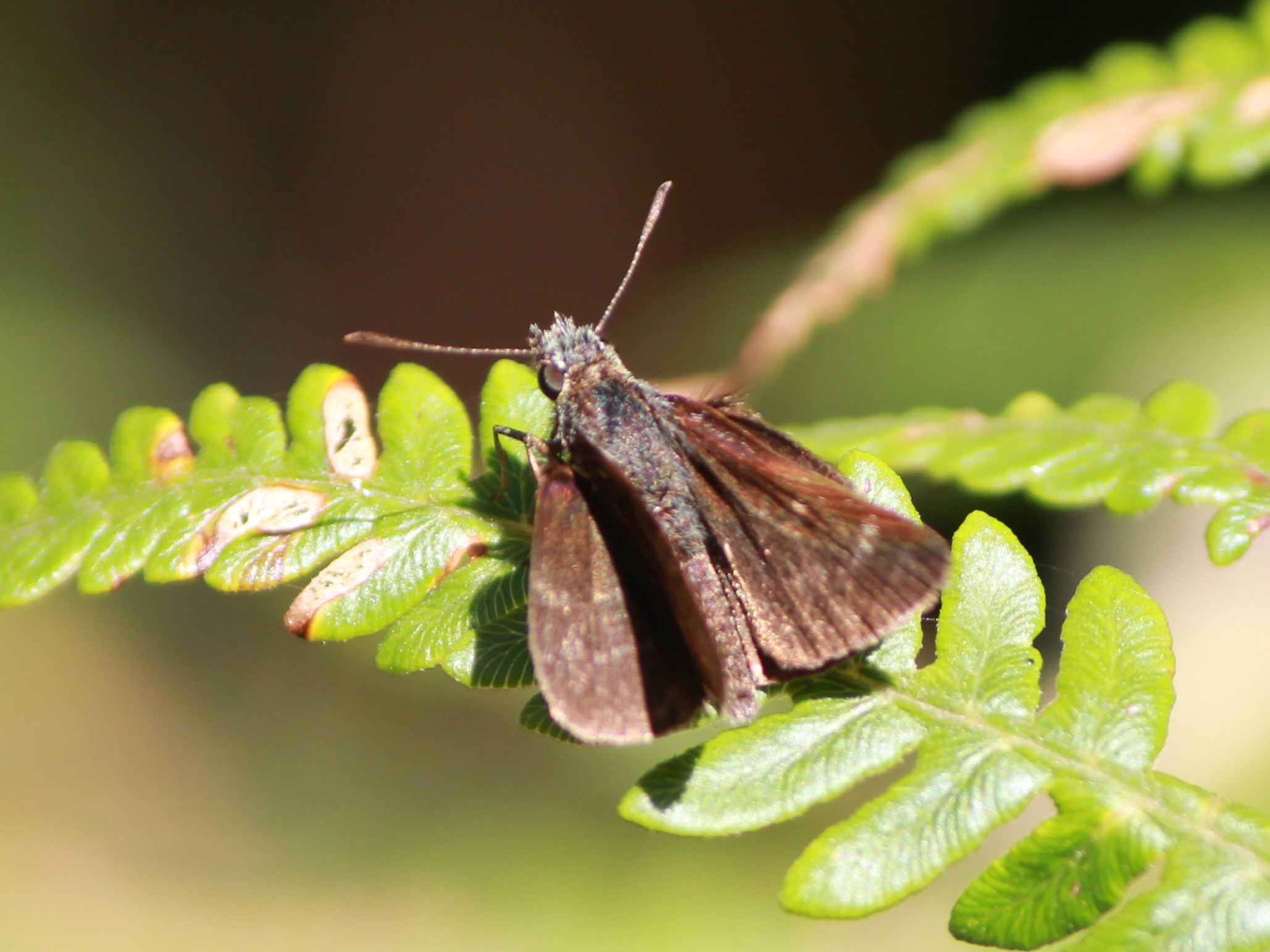 Aeromachus dubius in Munnar